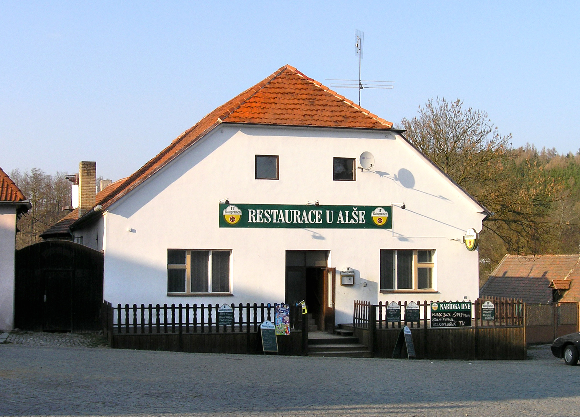 Restaurant at Mirotice, South Bohemia